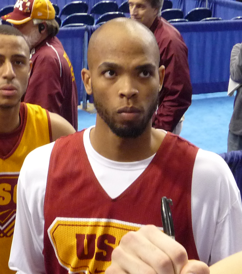 USC Trojans basketball player Taj Gibson leaves the court after a practice before the 2009 NCAA Tournament at the Metrodome in Minneapolis, Minnesota.